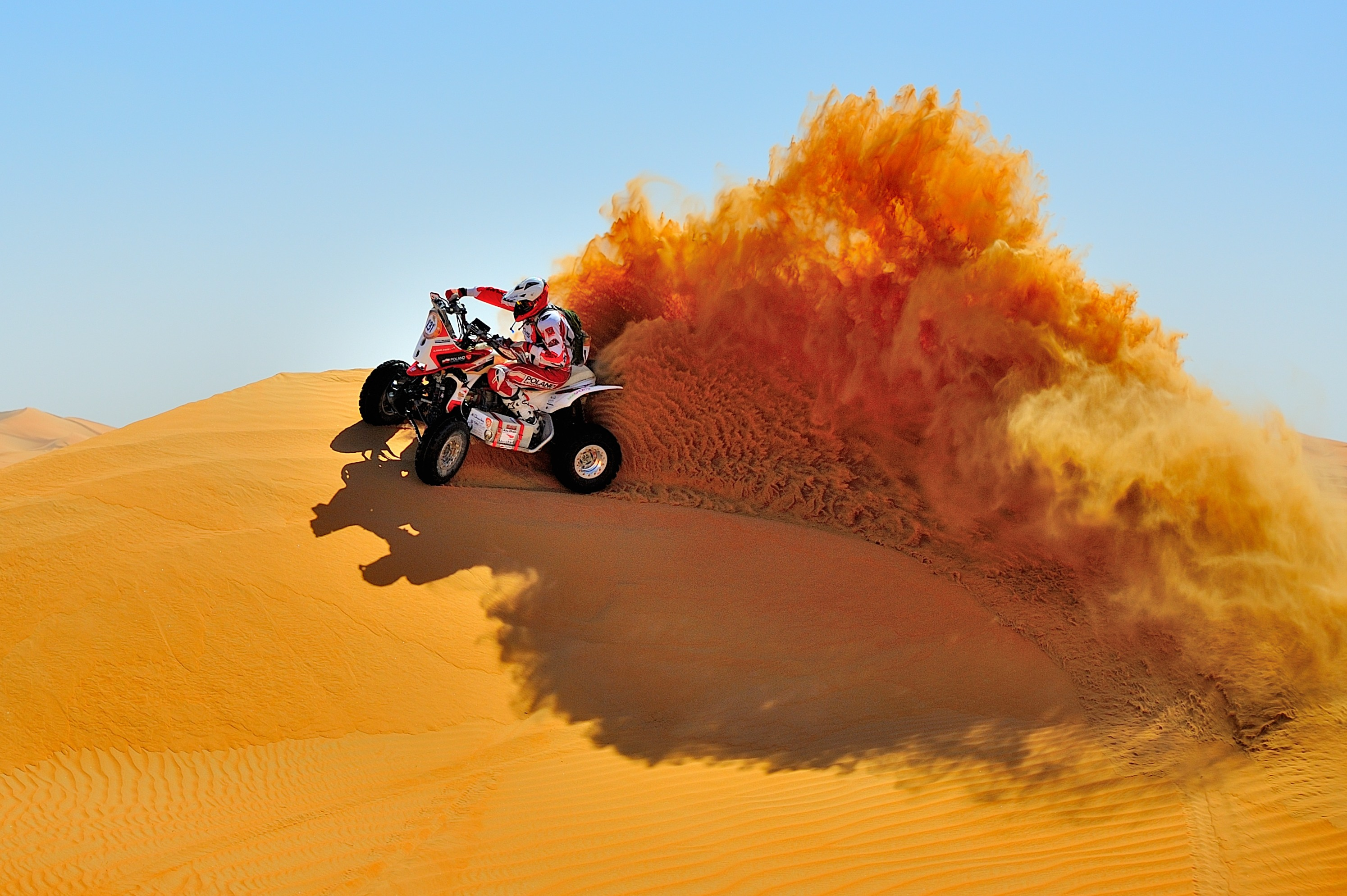 Rafał Sonik, Abu Dhabi